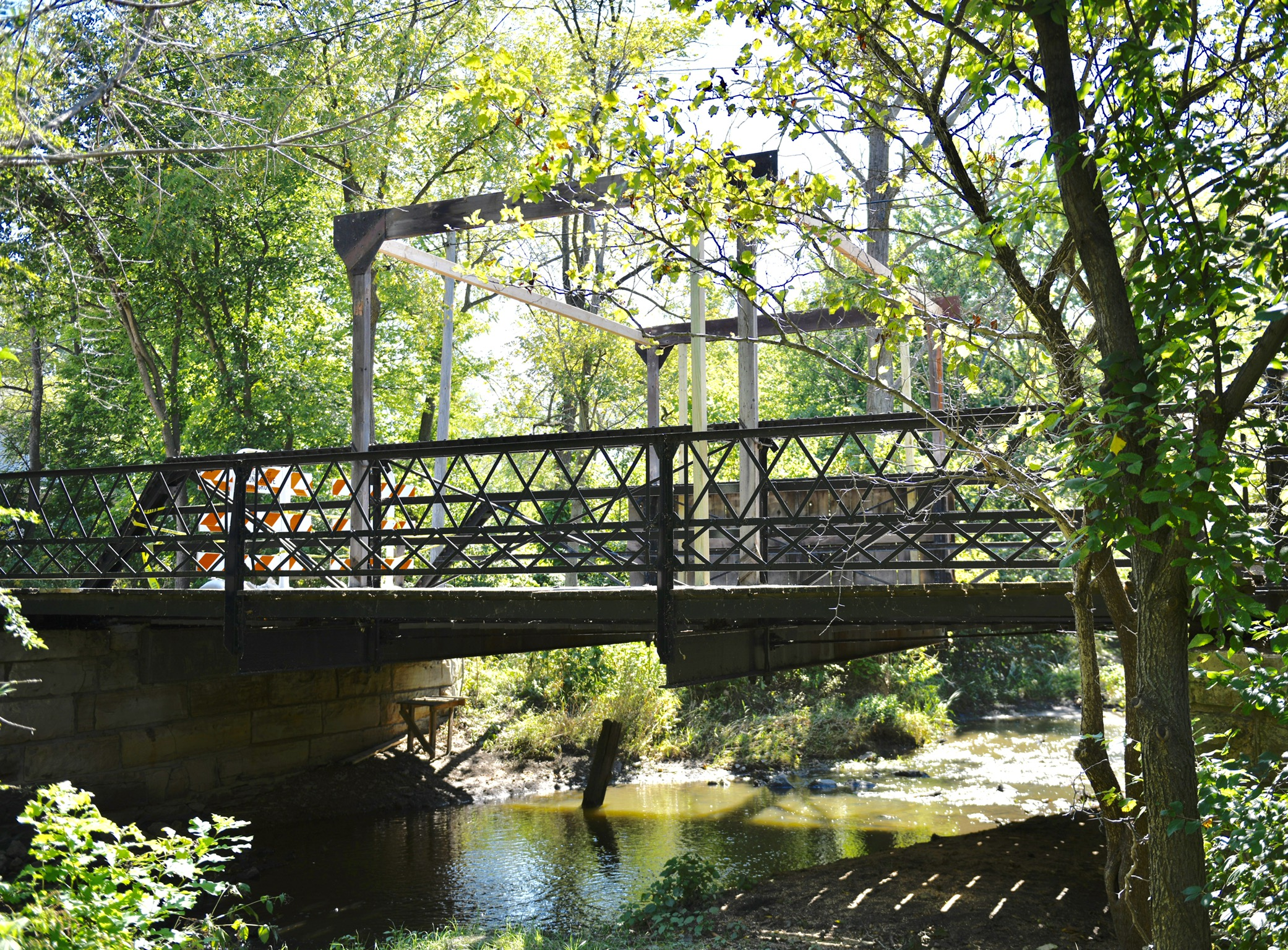 This historic bridge had the covering destroyed by a box truck on June 27, 2018, just 16 days after being designated by NRHP. It is to be rebuilt as the base was not damaged.